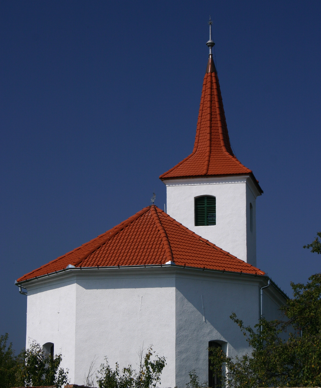 Reformed church in Felenyed